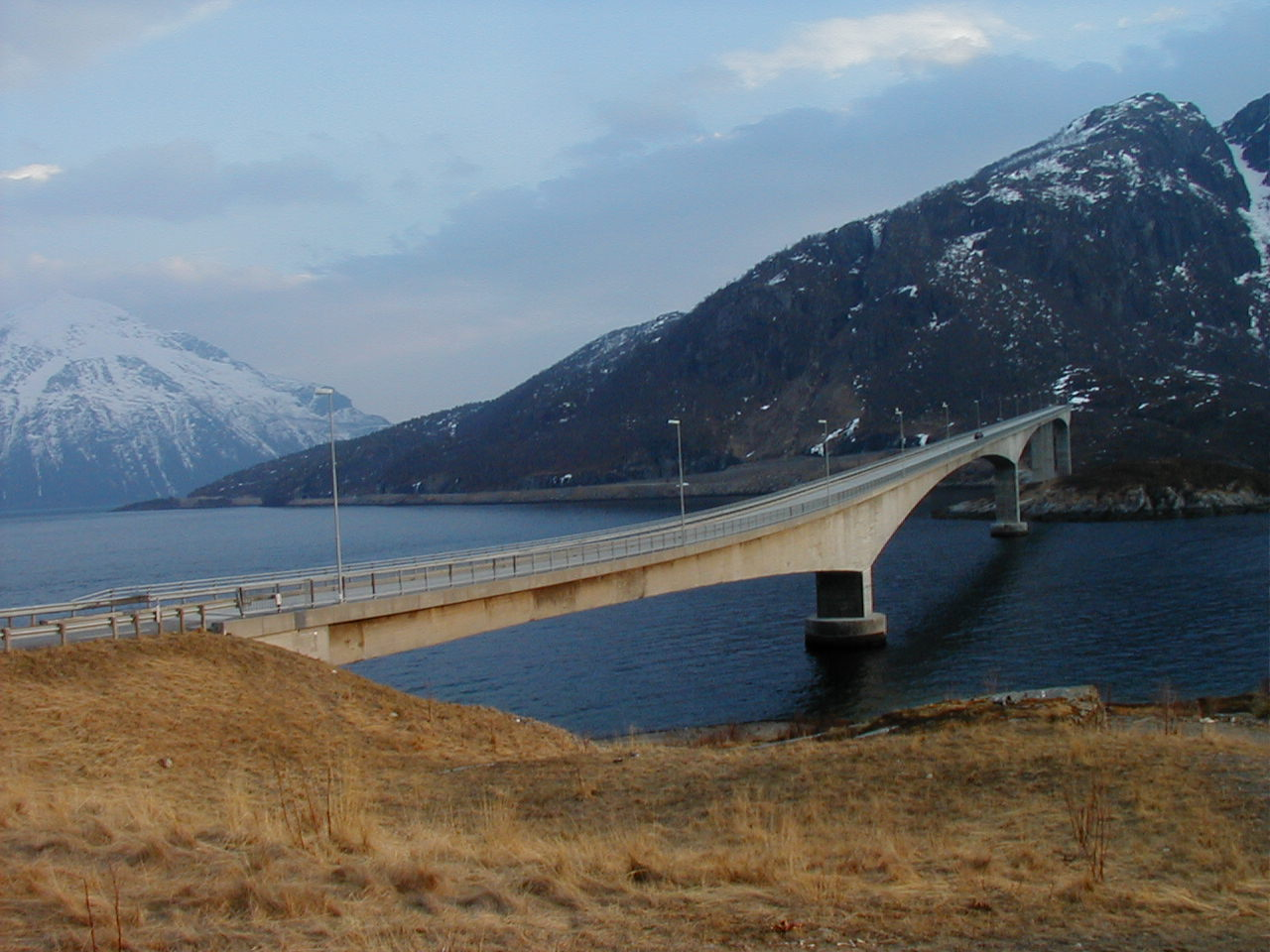 Mjøsund Bridge is a road bridge in Troms county (fylke), Norway.